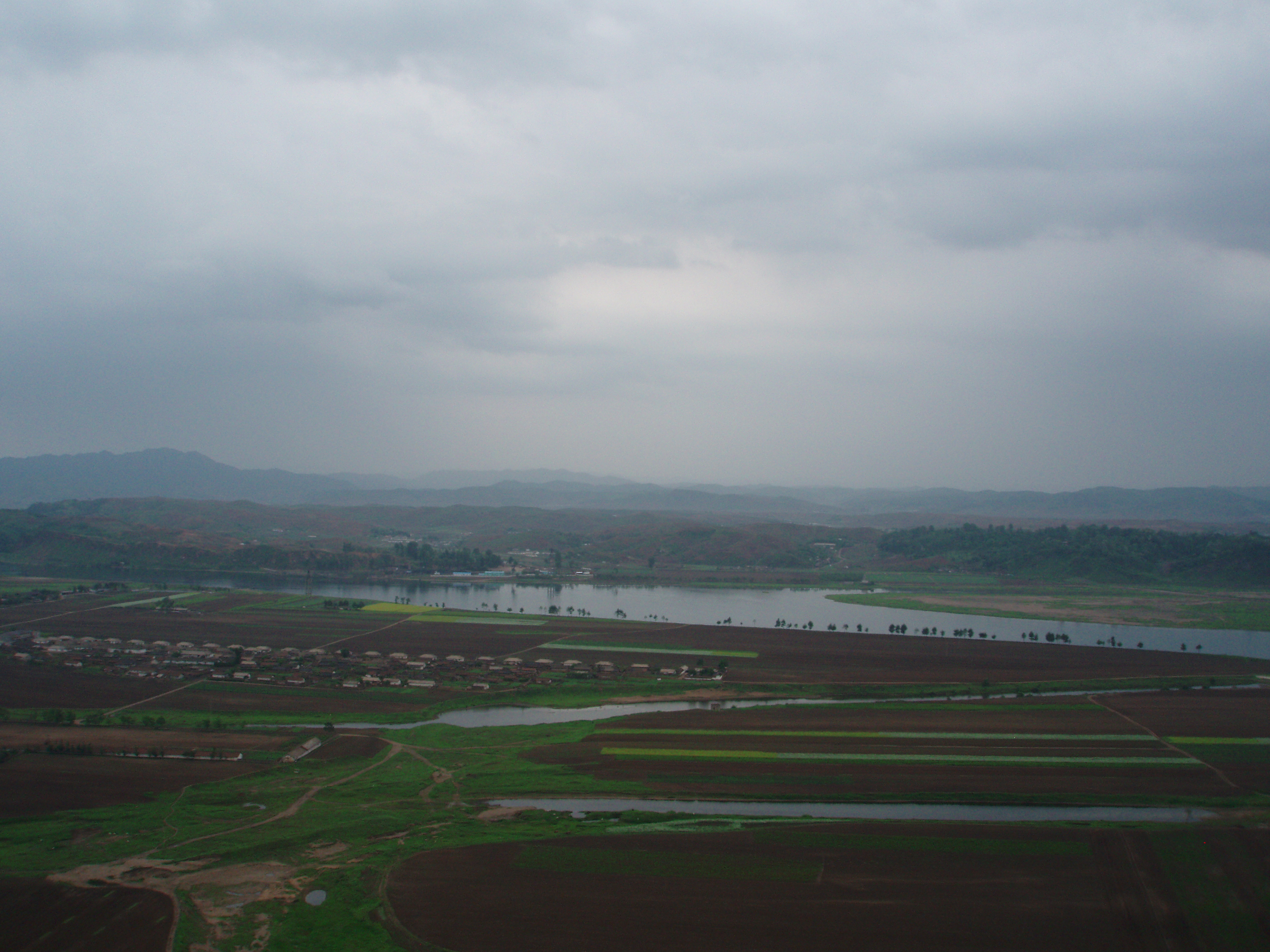 View from Hushan Great Wall towards N. Korea